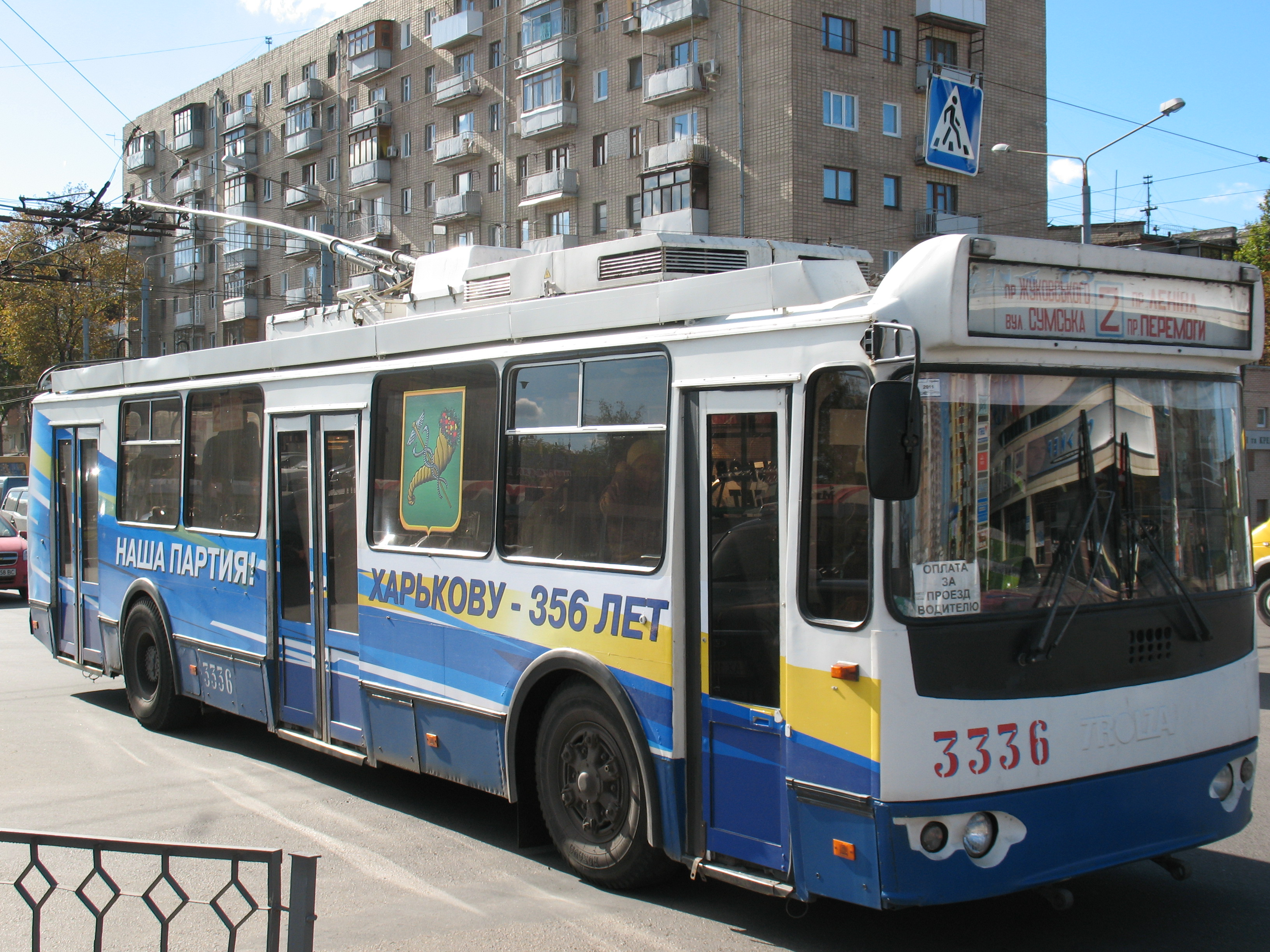 Kharkov City. Kharkov trolleybus "Trolza 3336" #2.